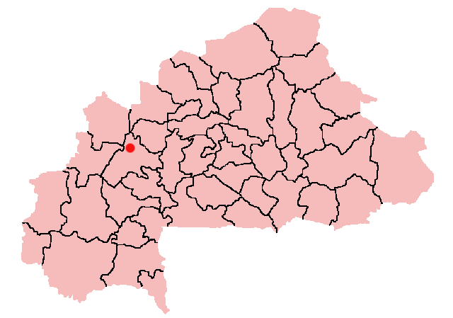 Dédougou, Burkina Faso Location Map; created with the GIMP. Made by User:Acntx.